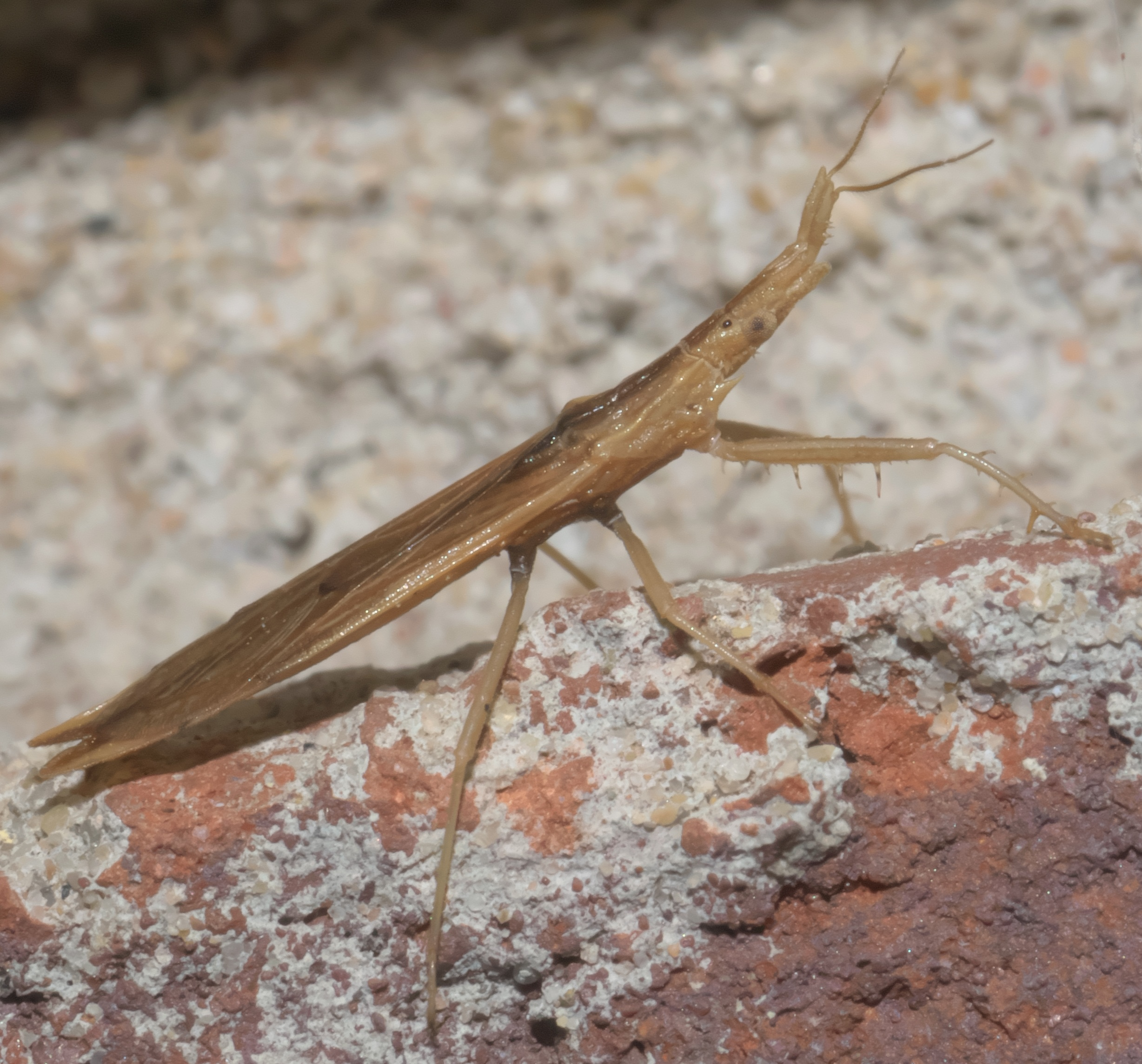 Pnirontis modesta, Family: Assassin Bugs, ID Confidence: 90